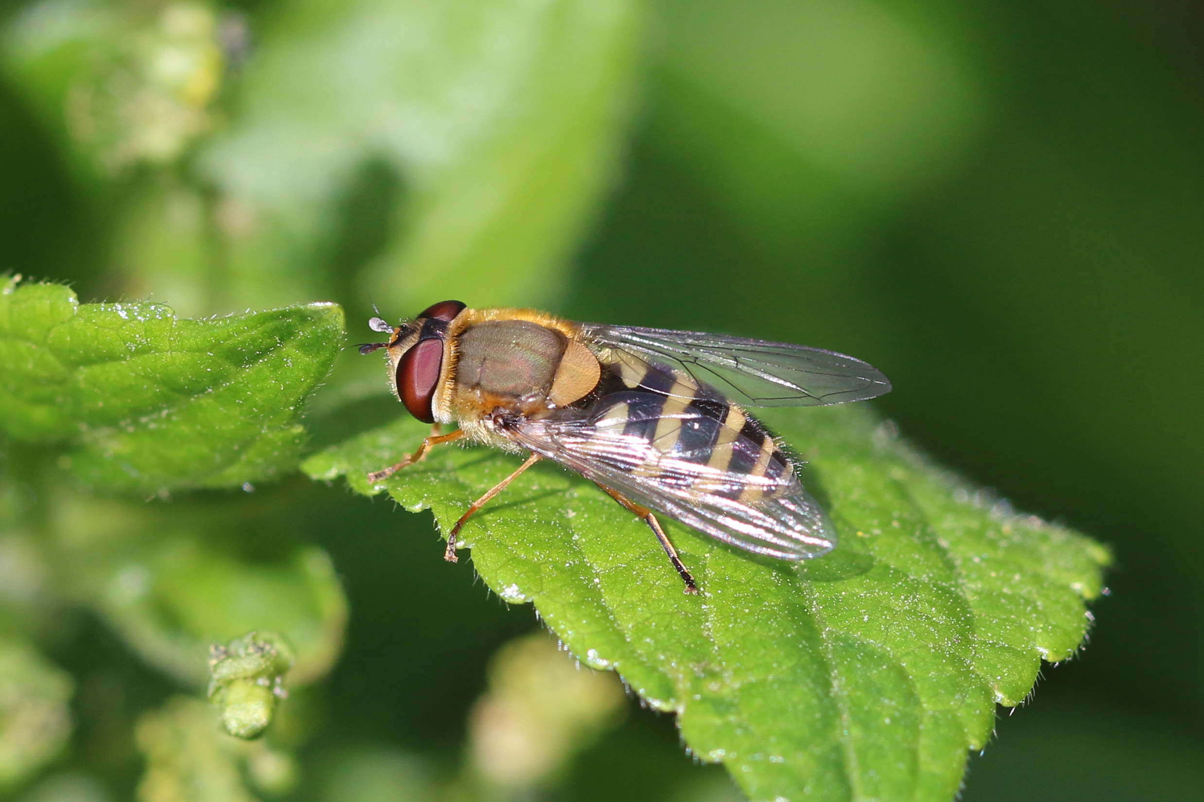 Hoverfly (Syrphus ribesii) female, Wytham Woods, Oxford